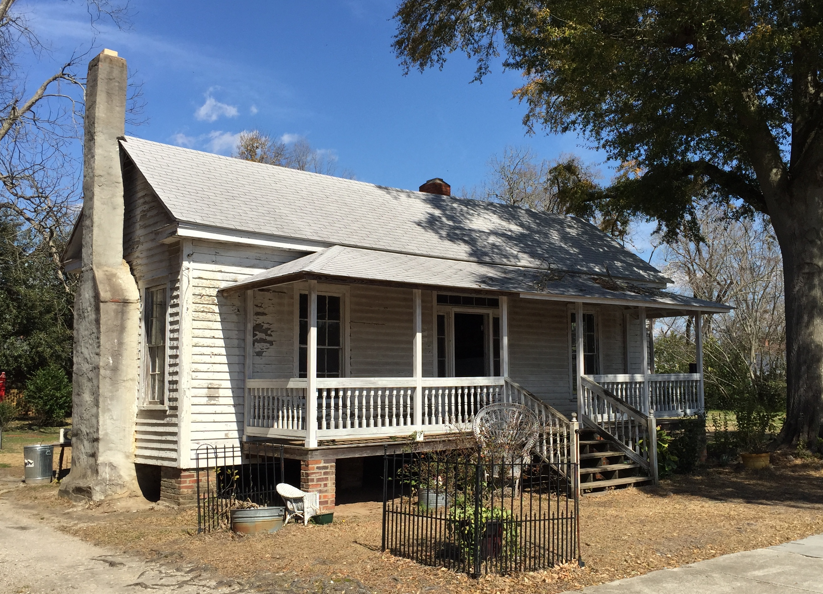 J.C. Teasley House The Teasley House at 131 E. Wine St., Mullins, South Carolina is itself a National Register property from about 1894 and is a contributing structure to the Commercial Historic District.